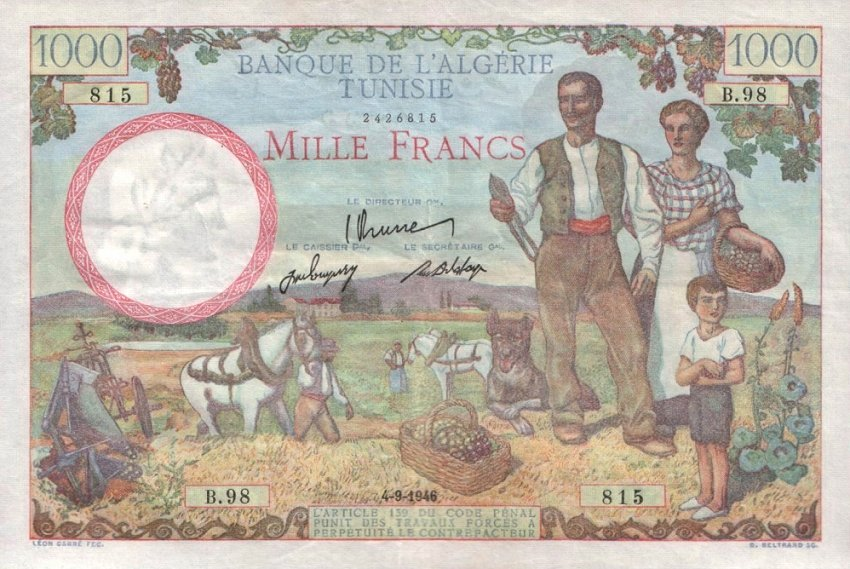 1000 franc banknote issued in 1941, Tunisia.